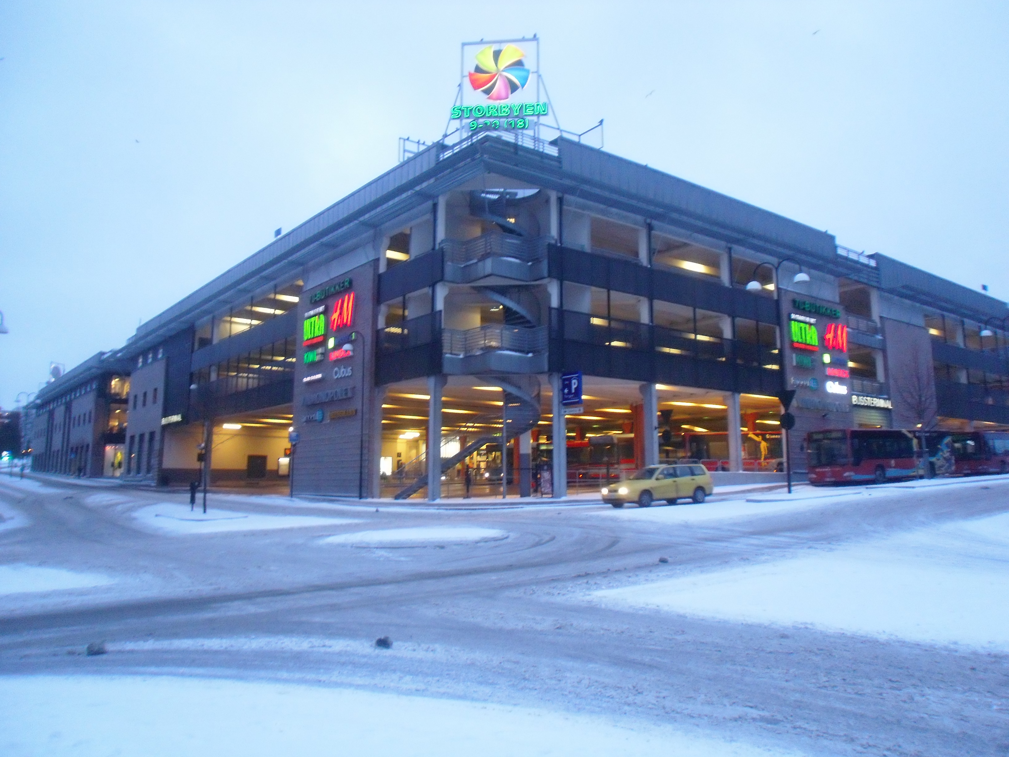 The shopping mall Storbyen in Sarpsborg, Norway.